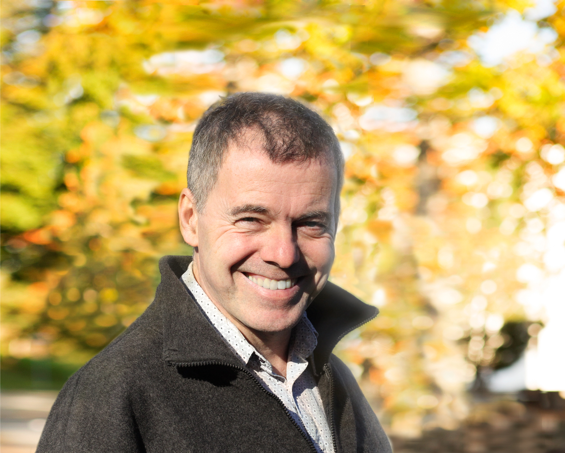 The photo shows Jan Ketil Rød, a Norwegian geomatics professor at the Norwegian University of Science and Technology (NTNU)